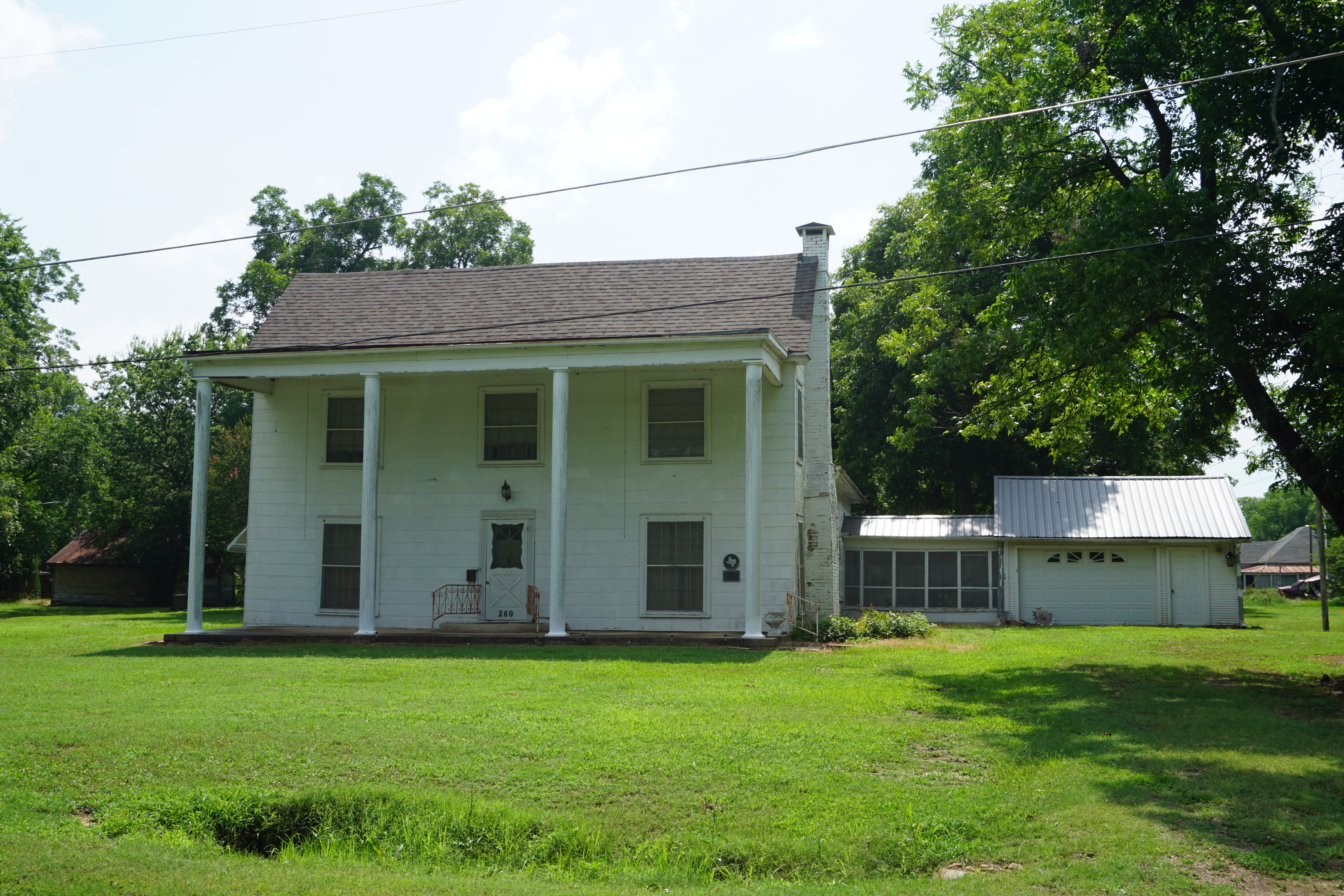 The John Nance Garner Home in Detroit, Texas (United States).